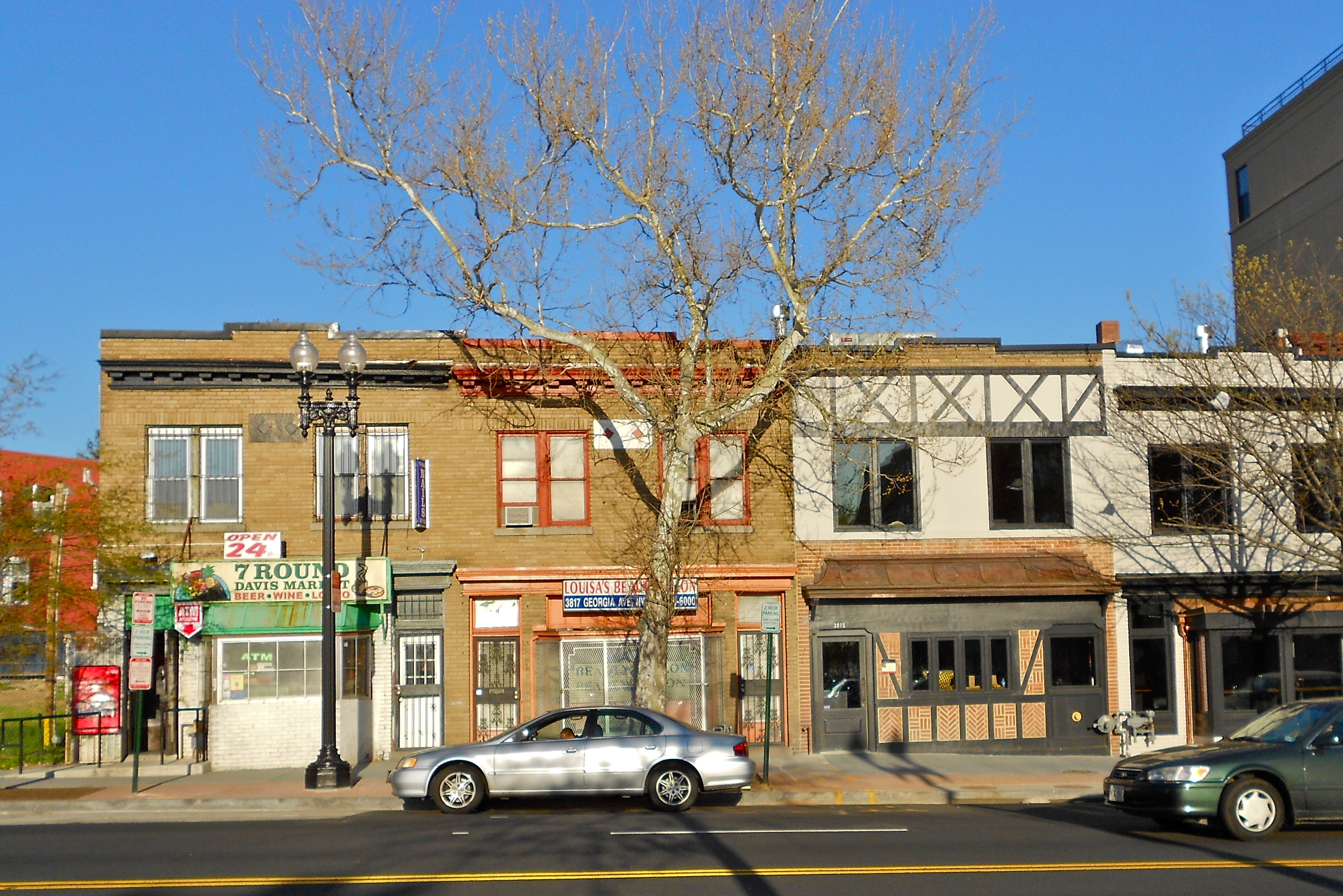 3rd building from the left is Billy Simpson's House of Seafood and Steaks on the NRHP since March 17, 2009. At 3815 Georgia Avenue, NW in the Petworth neighborhood of Washington, DC. Newly rennovated.